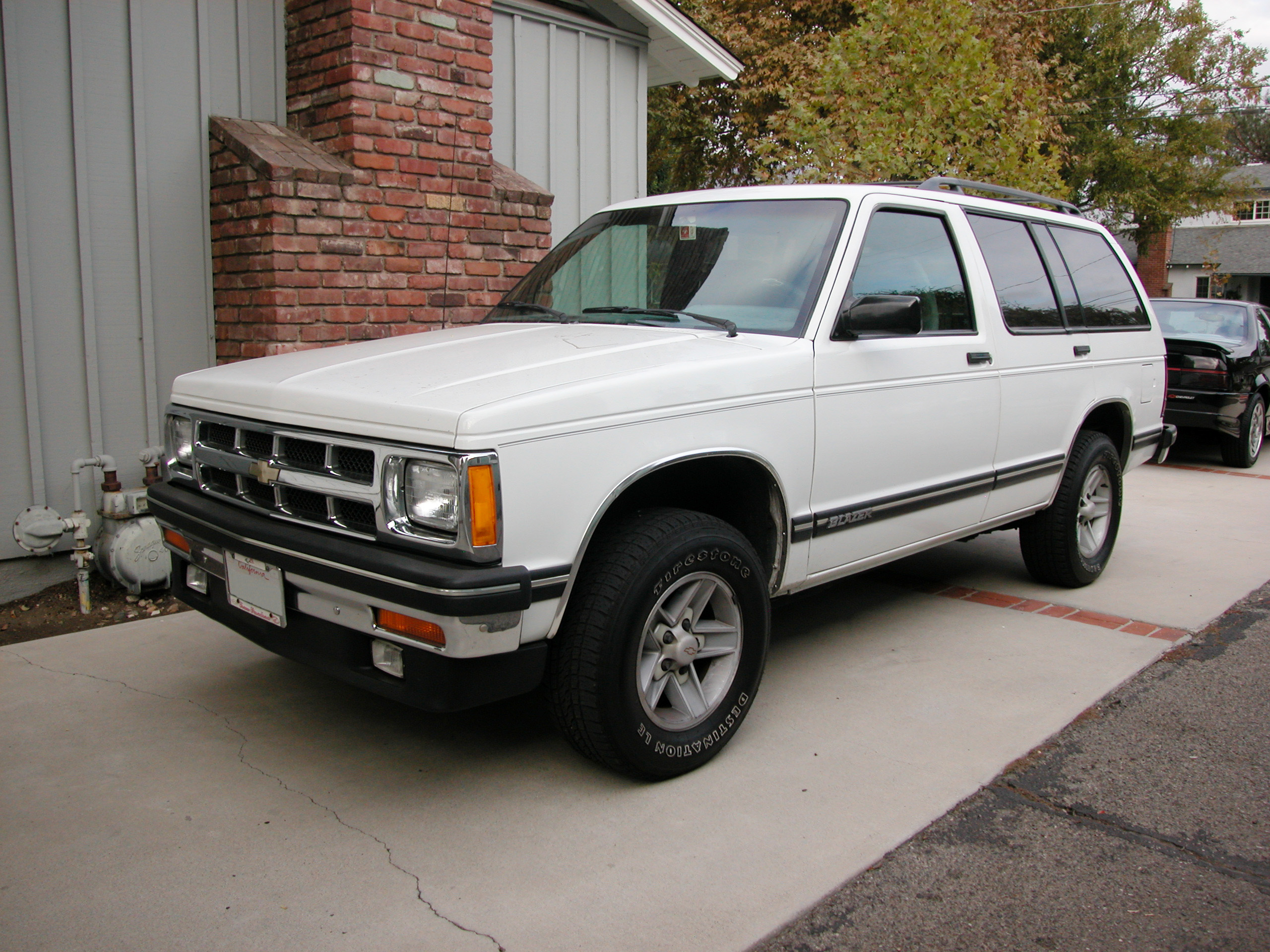 Front view of a 1994 Chevrolet Blazer LS V6. Camera used was a Nikon Coolpix 5000.